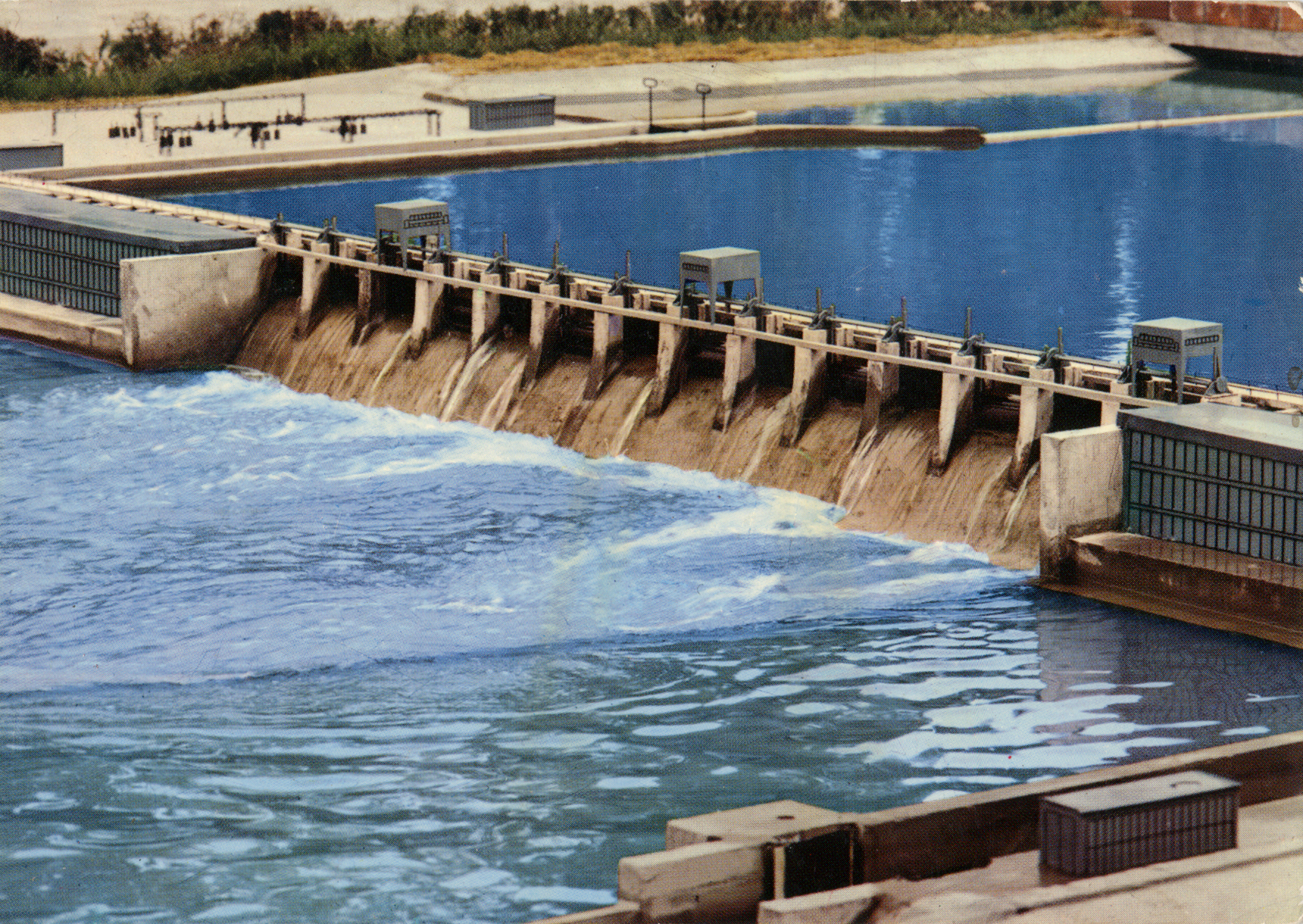 Model of HPP Đerdap I.